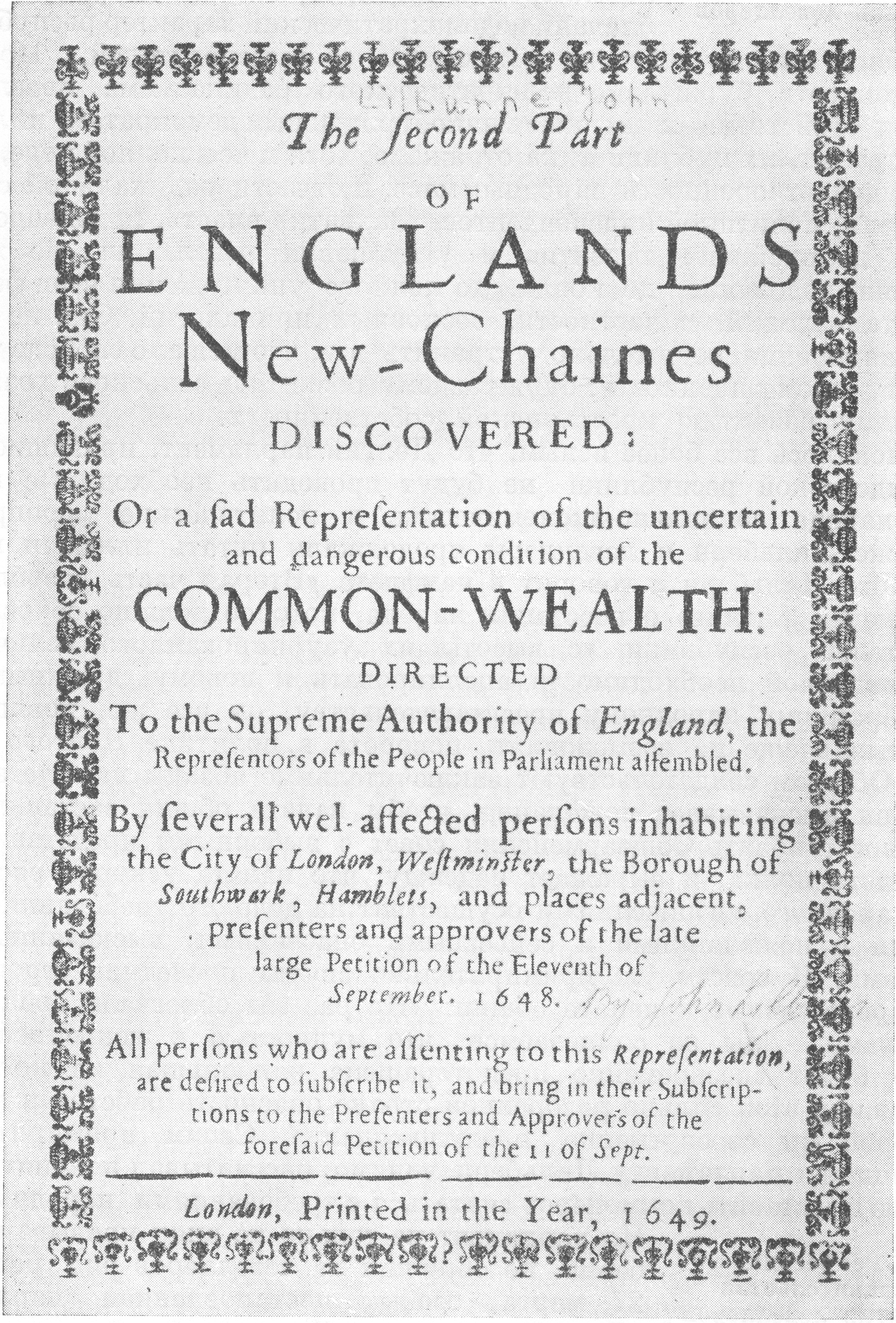 Title of levellers' pamplet The Second Part of England's New Chains Discovered